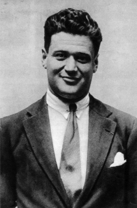 Joseph Kessel (1898–1979) ca 1927